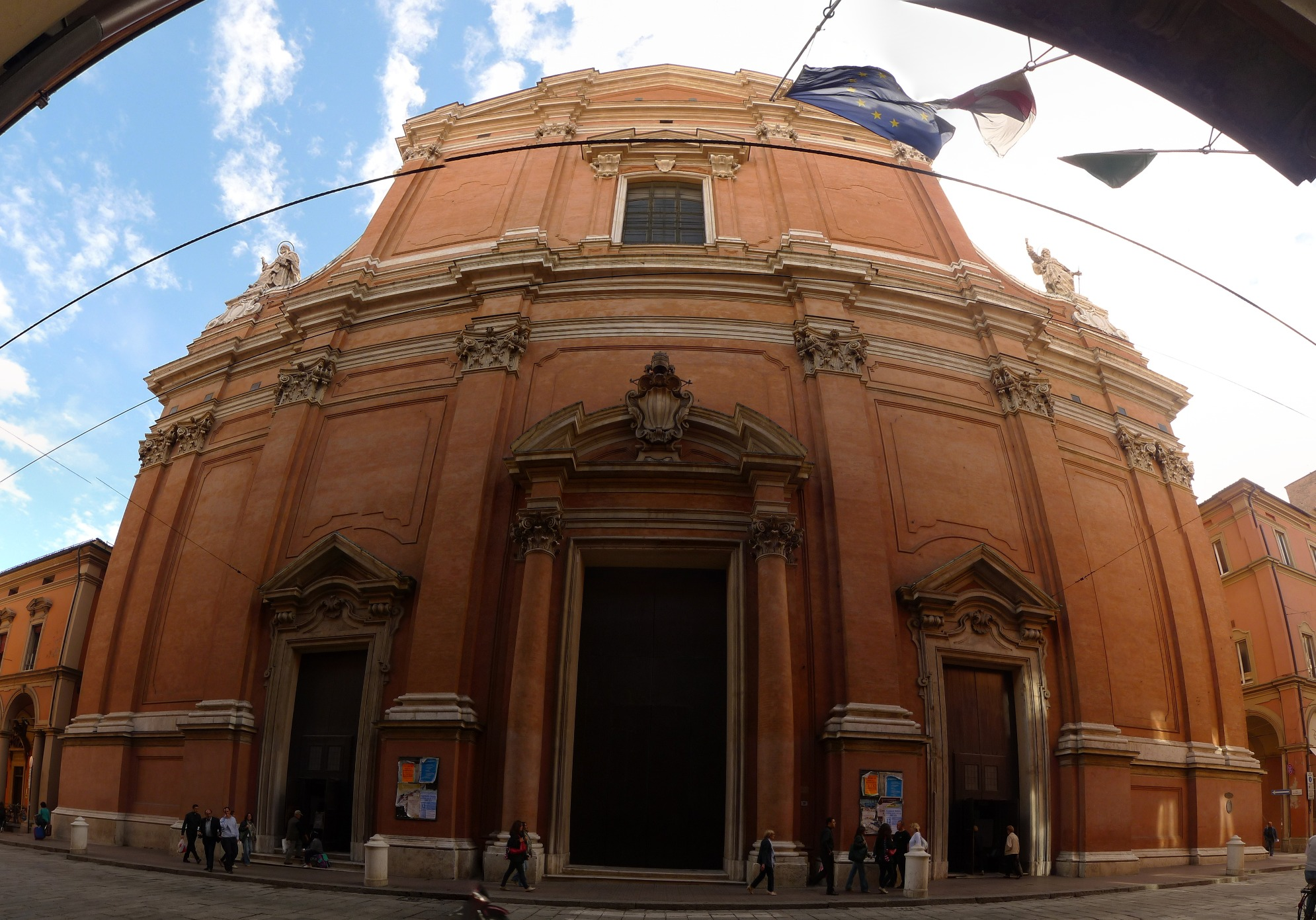 Facade of the cathedral of San Pietro, Bologna.